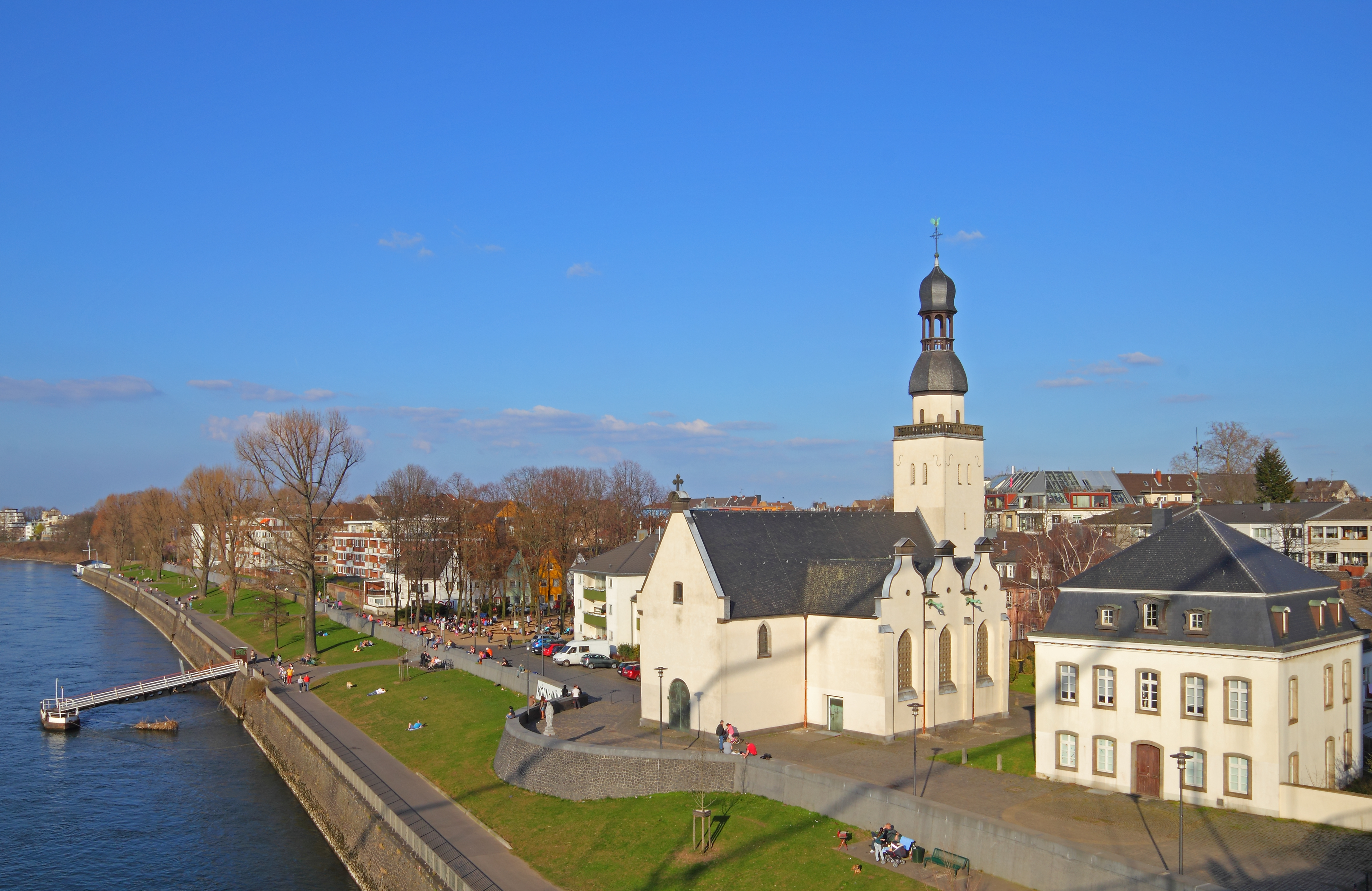 Rhine embankment with the St. Clement church in Cologne-Mülheim.